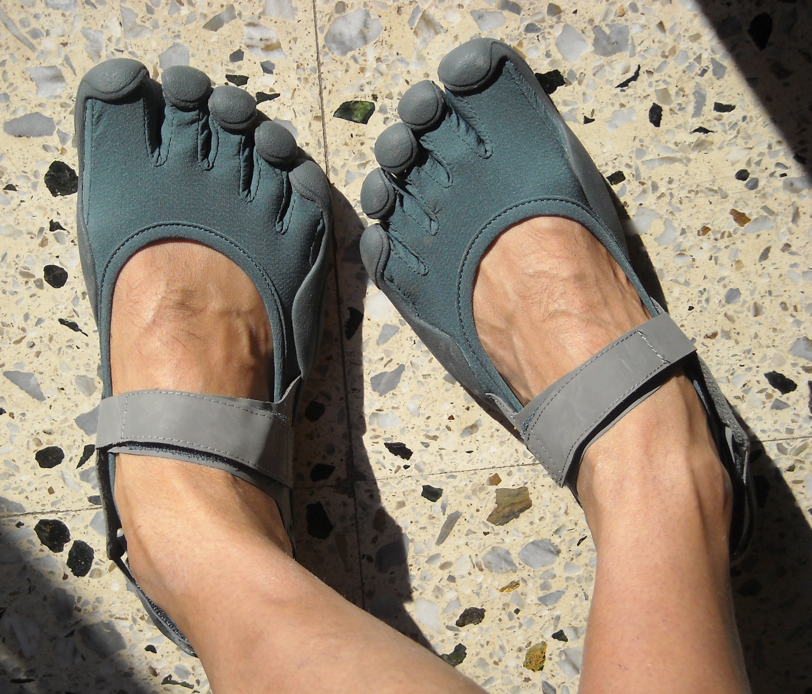 Vibram FiveFingers Sprint Coconut "Goblin Blue". Size: M41. Upper fabric: coconut active carbon fiber. Sole: TC-1 rubber. Footbed: antimicrobial polyamide microfiber. Colors: upper and sole in teal blue ("goblin" blue), straps and adjustment system in grey. Released in September 2010 in the European market.